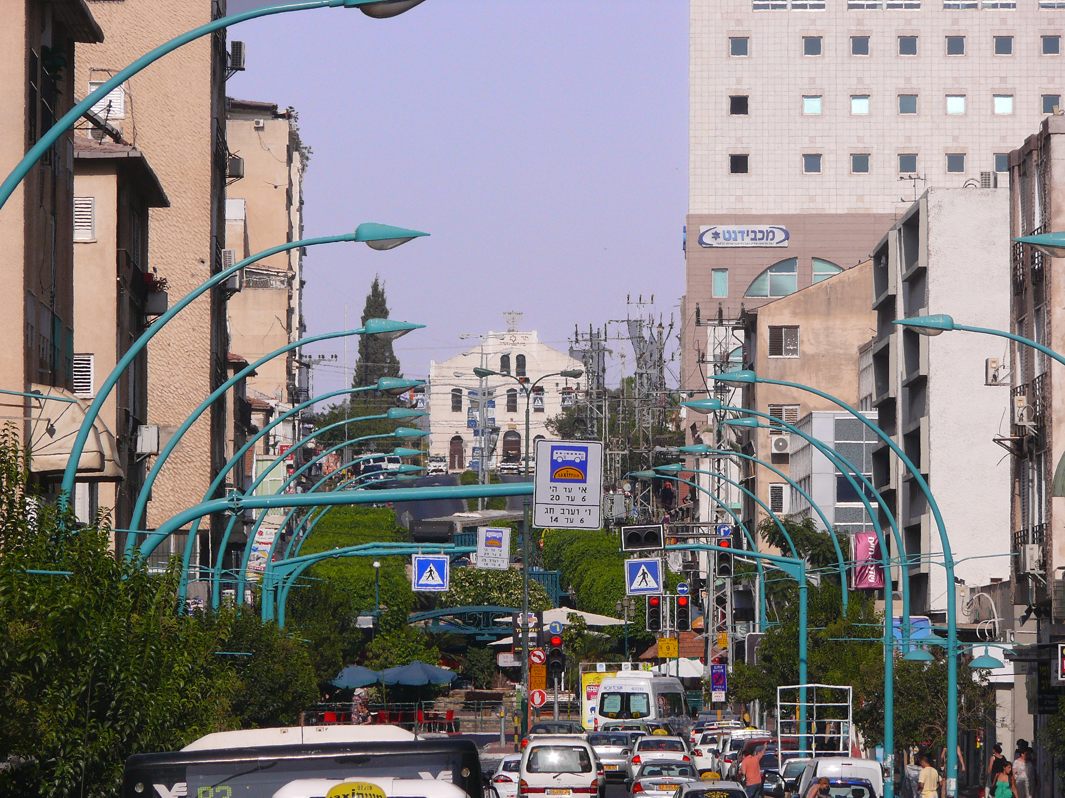 Rotschild Street, from Jabotinsky Blvd looking east (Rishon's Great Synagogue can bee seen), in Rishon LeZion